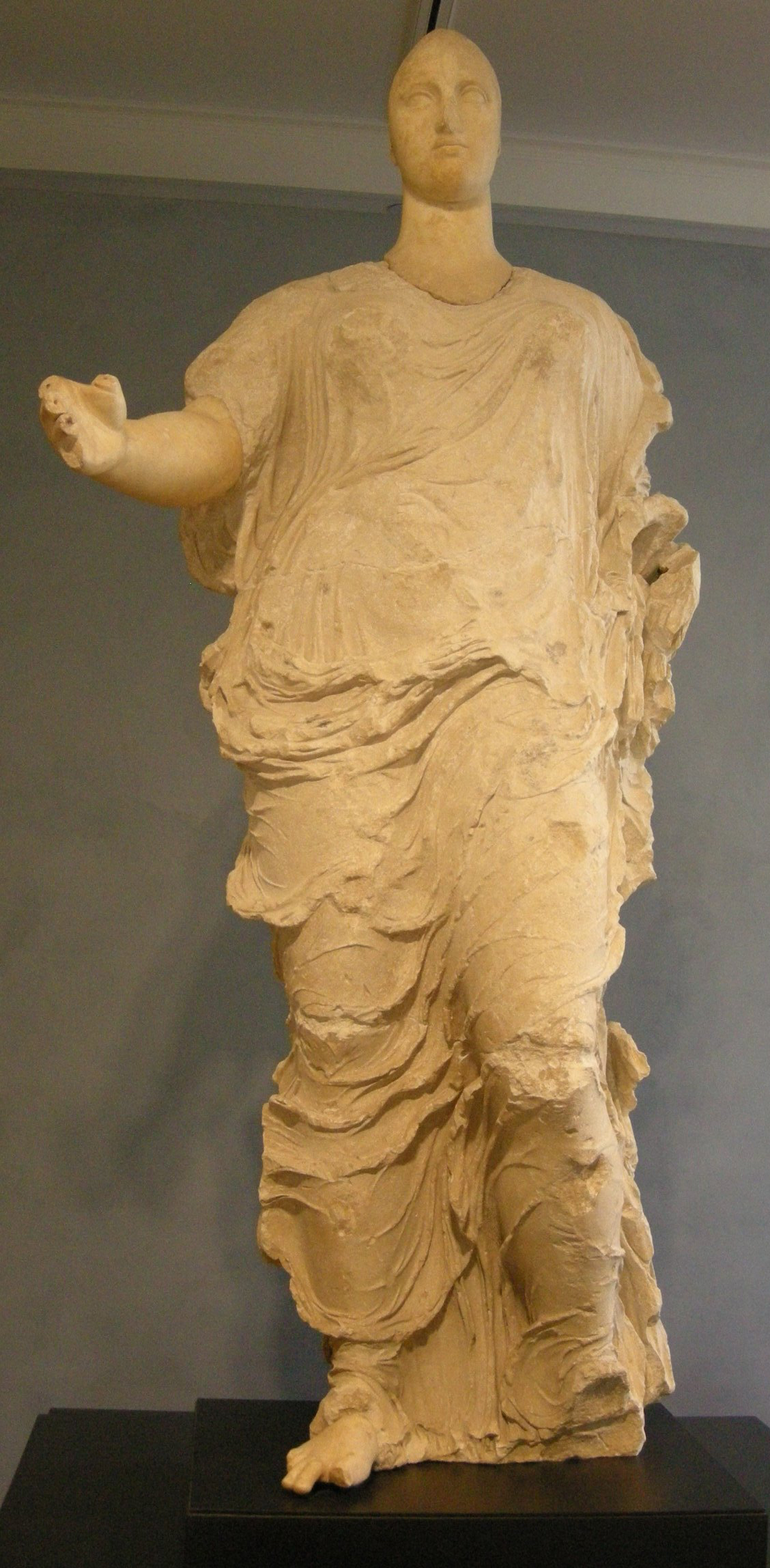 Morgantina Venus